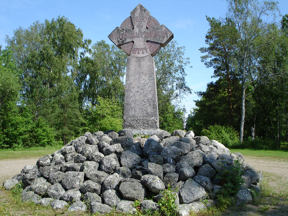 Memorial on the hill of former Korsholm castle.